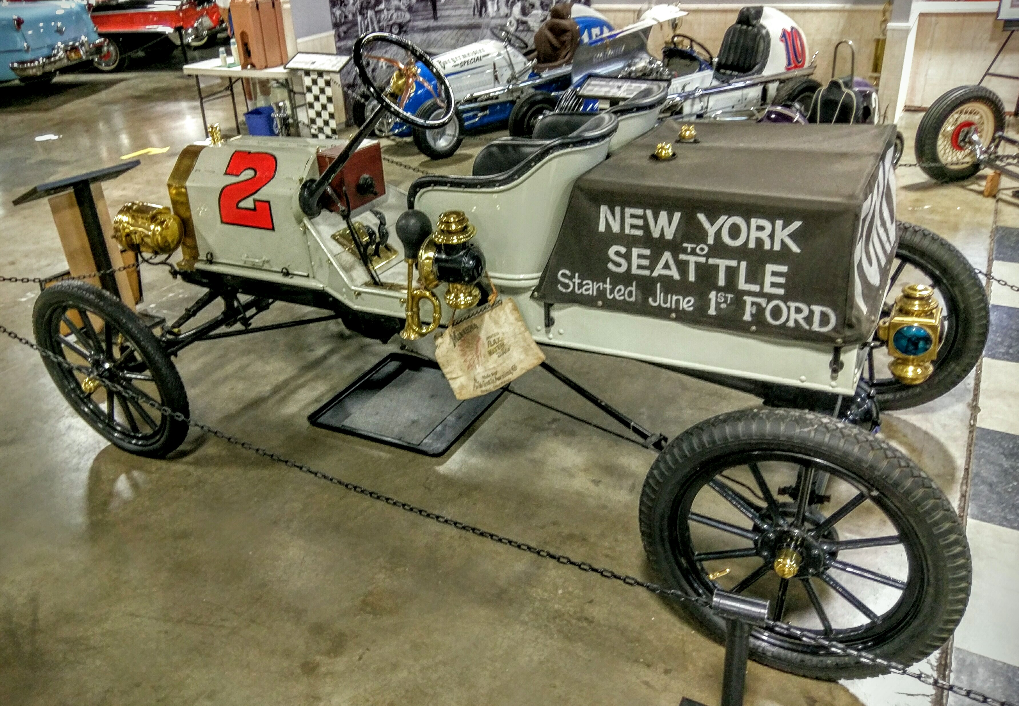 This car was the announced winner of the 1909 Ocean to Ocean race, but was later disqualified because an engine had been changed. On display at the California Automobile Museum. Photo by Jim Heaphy.